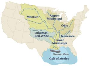 Map of the Mississippi River basin, showing sub-basins and the dead zone in the Gulf of Mexico.